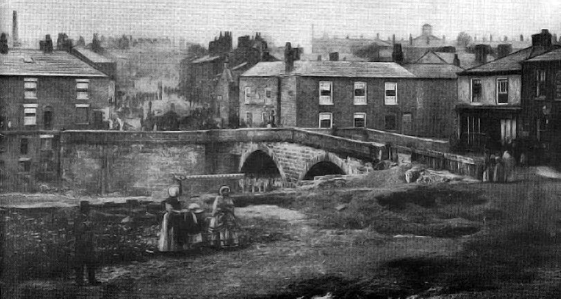 The first known photograph of Radcliffe Bridge, around 1854. The image is looking north, and the belfy of St Thomas' church is on the horizon.